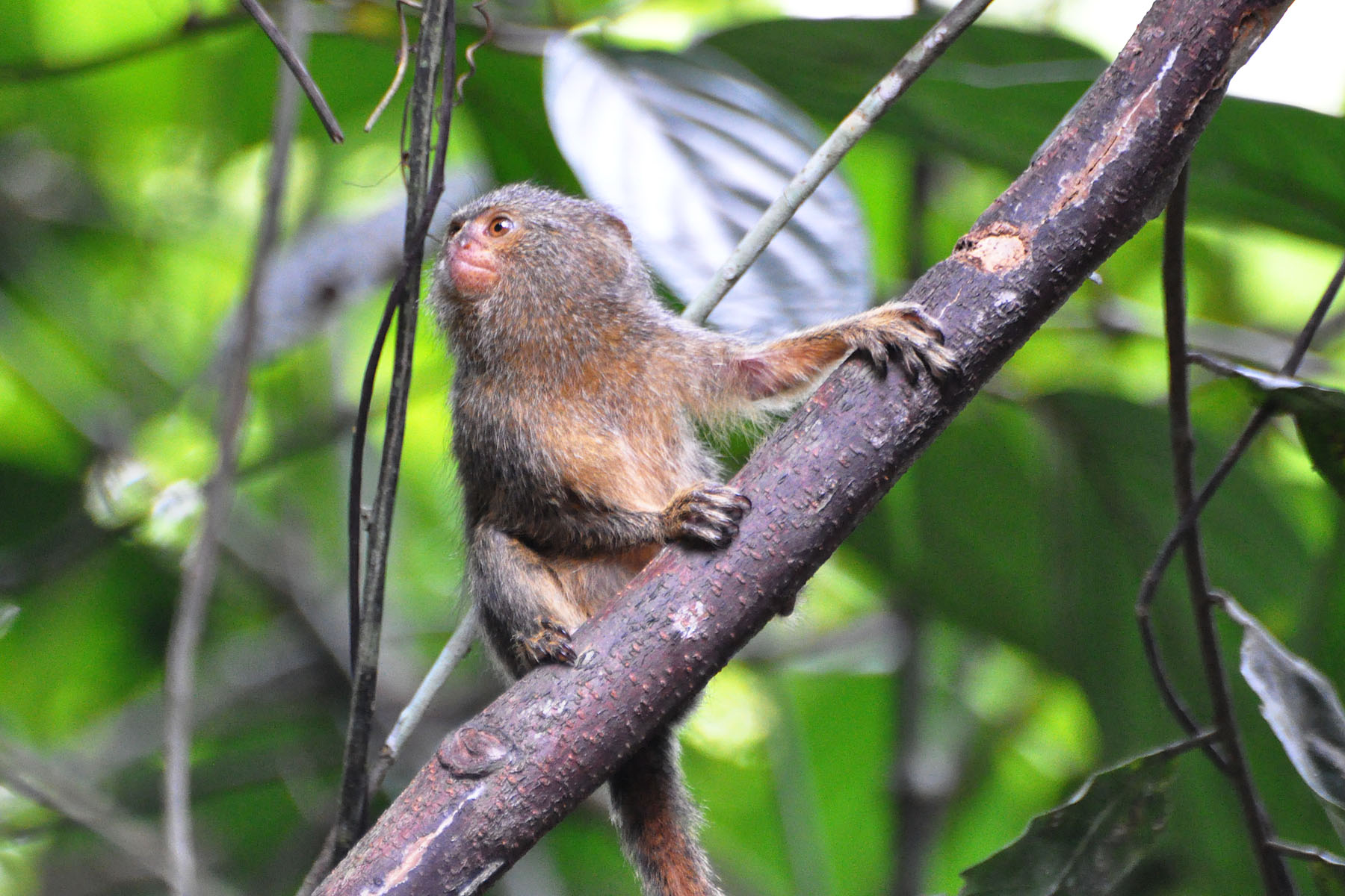 Pygmy marmoset (Cebuella pygmaea) on branch. Location: Sacha Lodge, Ecuador